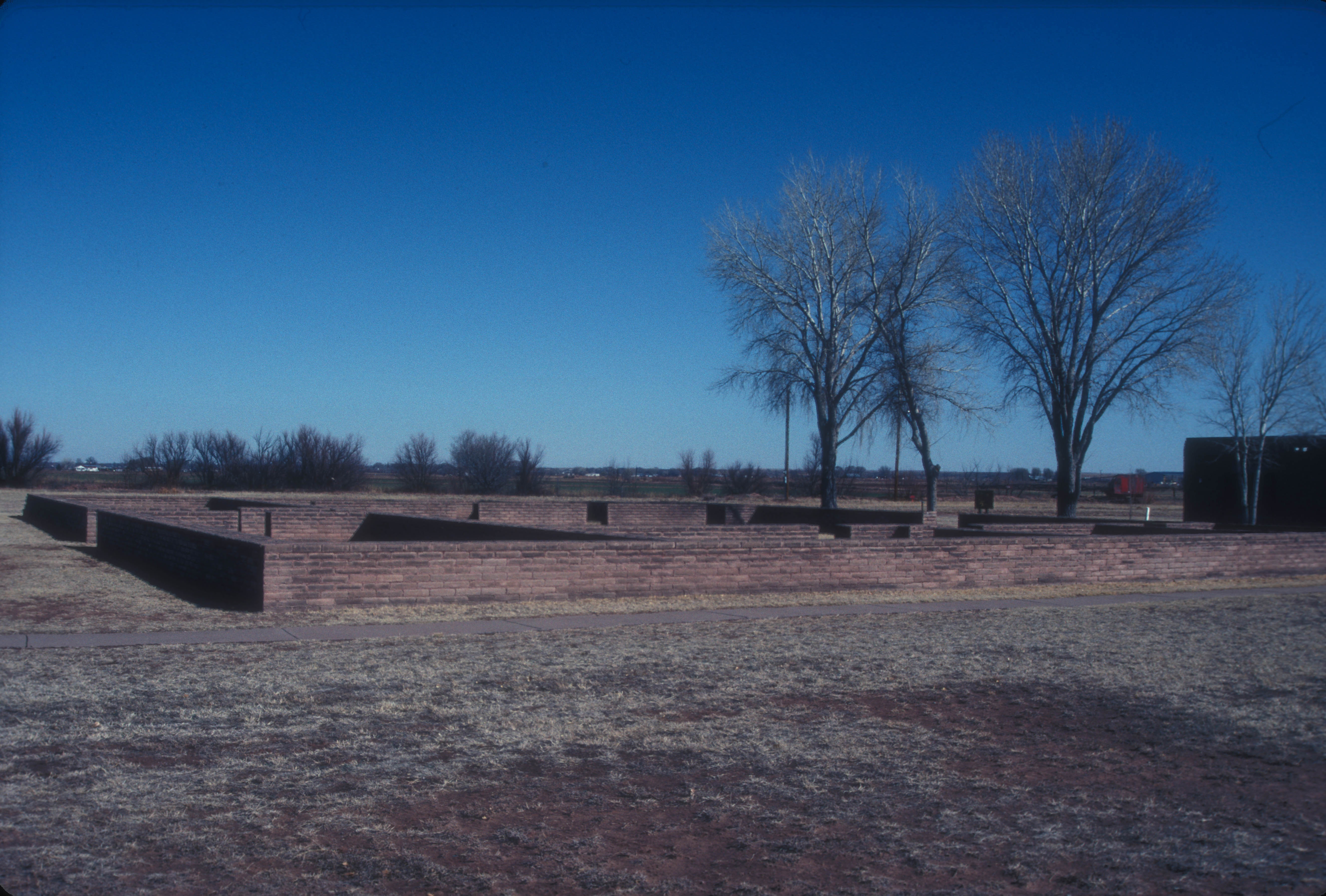 FORT ESTABLISHED IN 1860'S TO GUARD THE BOSQUE REDONDO INDIAN RESERVATION. ABANDONED IN 1868 AND SOLD TO LUCIEN BONAPARTE MAXWELL. IN THE FORMER OFFICER'S QUARTERS, BILLY THE KID WAS SHOT BY PAT GARRETT